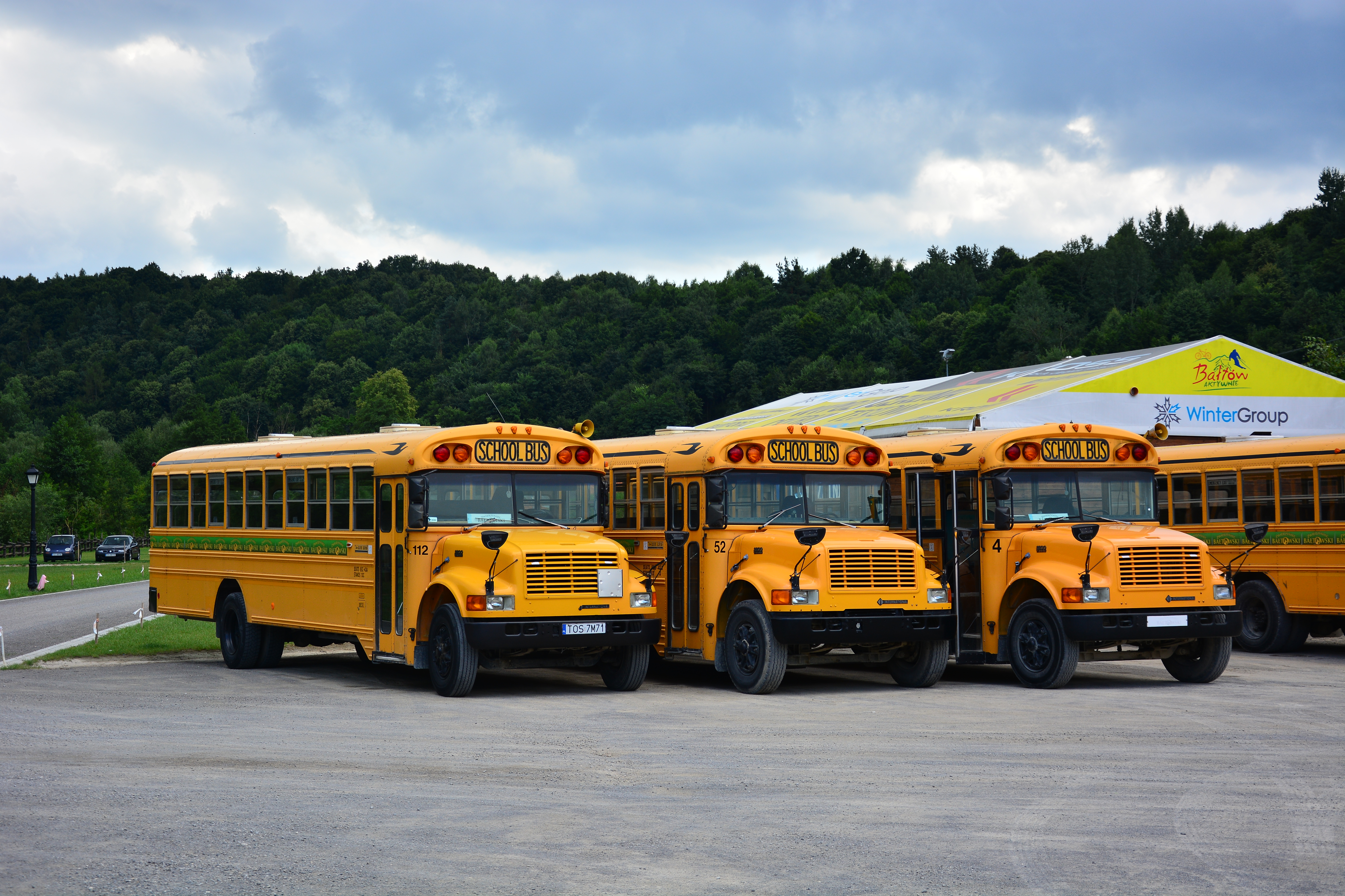 American-type schoolbuses belonging to Bałtów Jurassic Park, coursing on Zwierzyniec Górny in Bałtów.